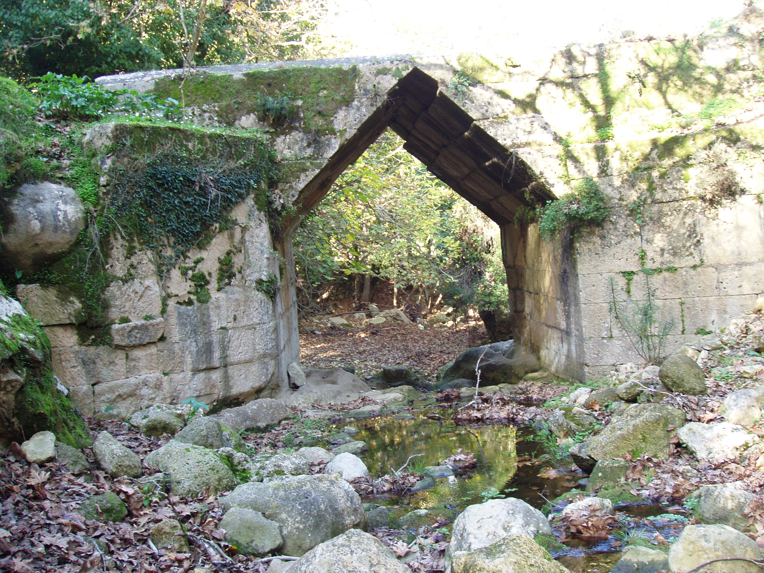 Ancient Greek corbel arch bridge at Eleutherna on the isle of Crete, Greece. View to the south.